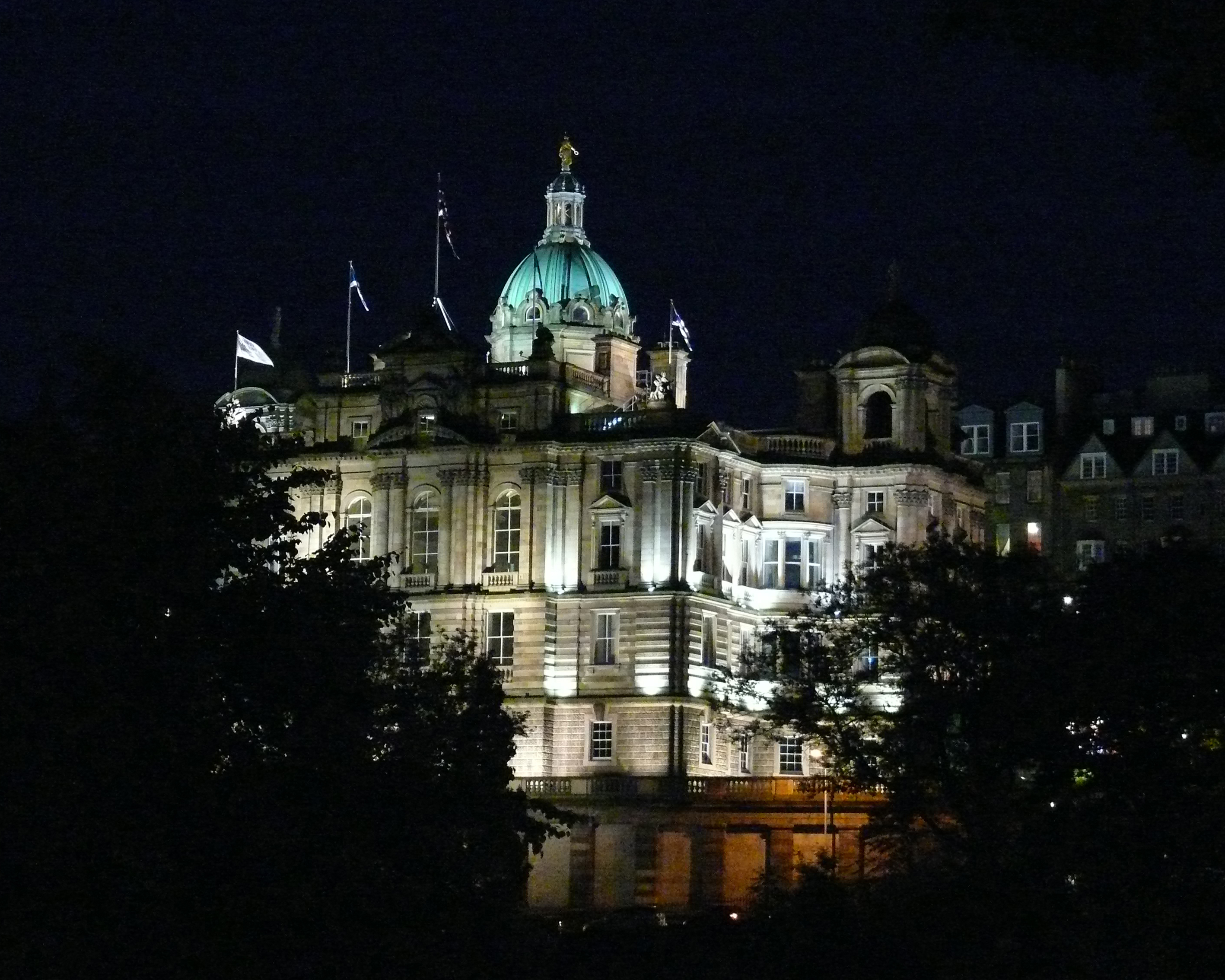 The headquarters of the Bank of Scotland at night as seen from Princes Street, Edinburgh.